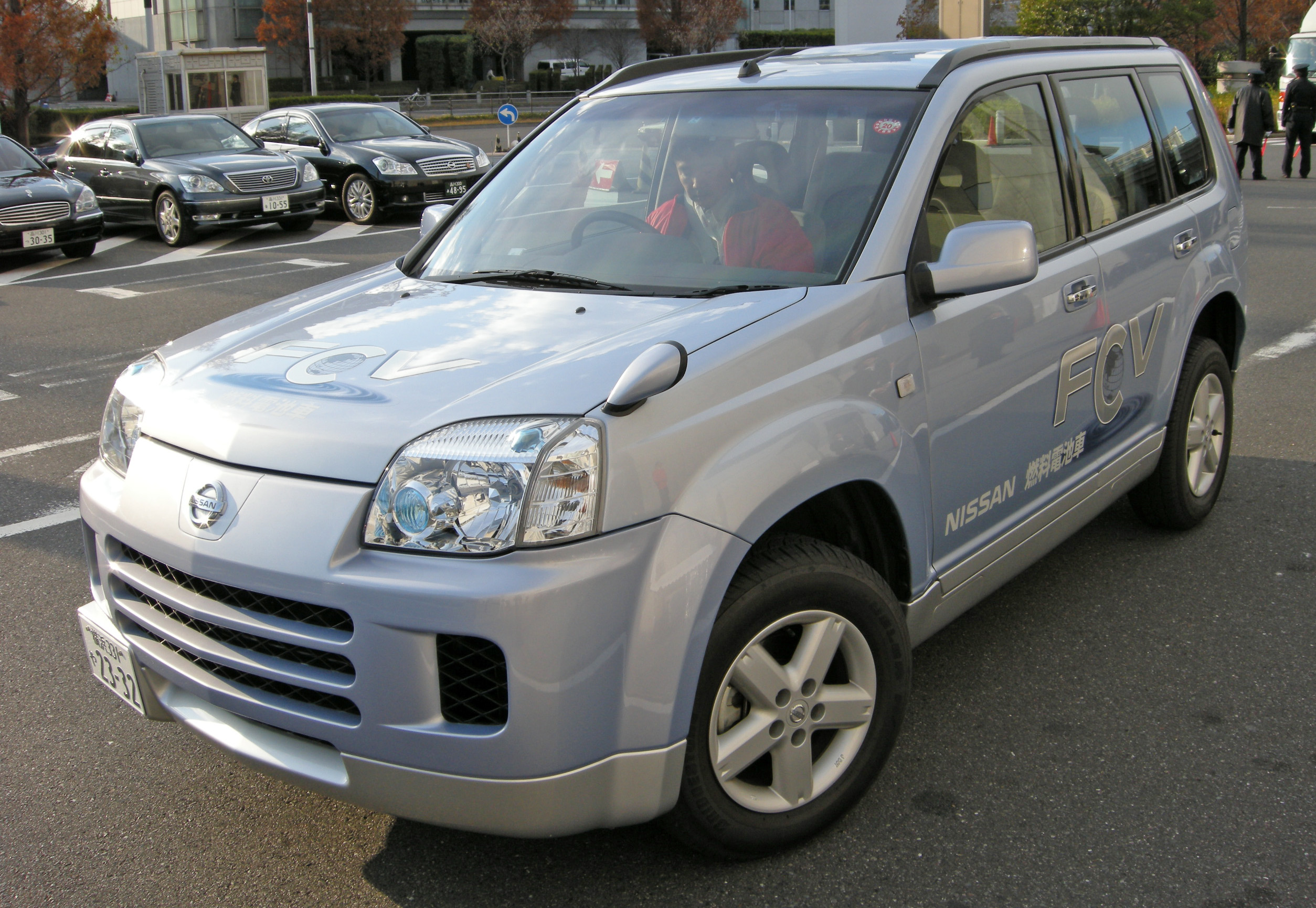 Nissan X-TRAIL FCV in Eco Products 2007 at Tokyo Big Sight (Koto, Tokyo)